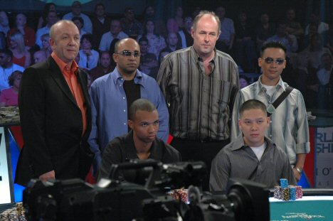 WPT Five Star Poker Classic 2005 – Final championship table six standing from left Maxfield, Habib, Hollink, Phan sitting from left Ivey, Tuan Le.